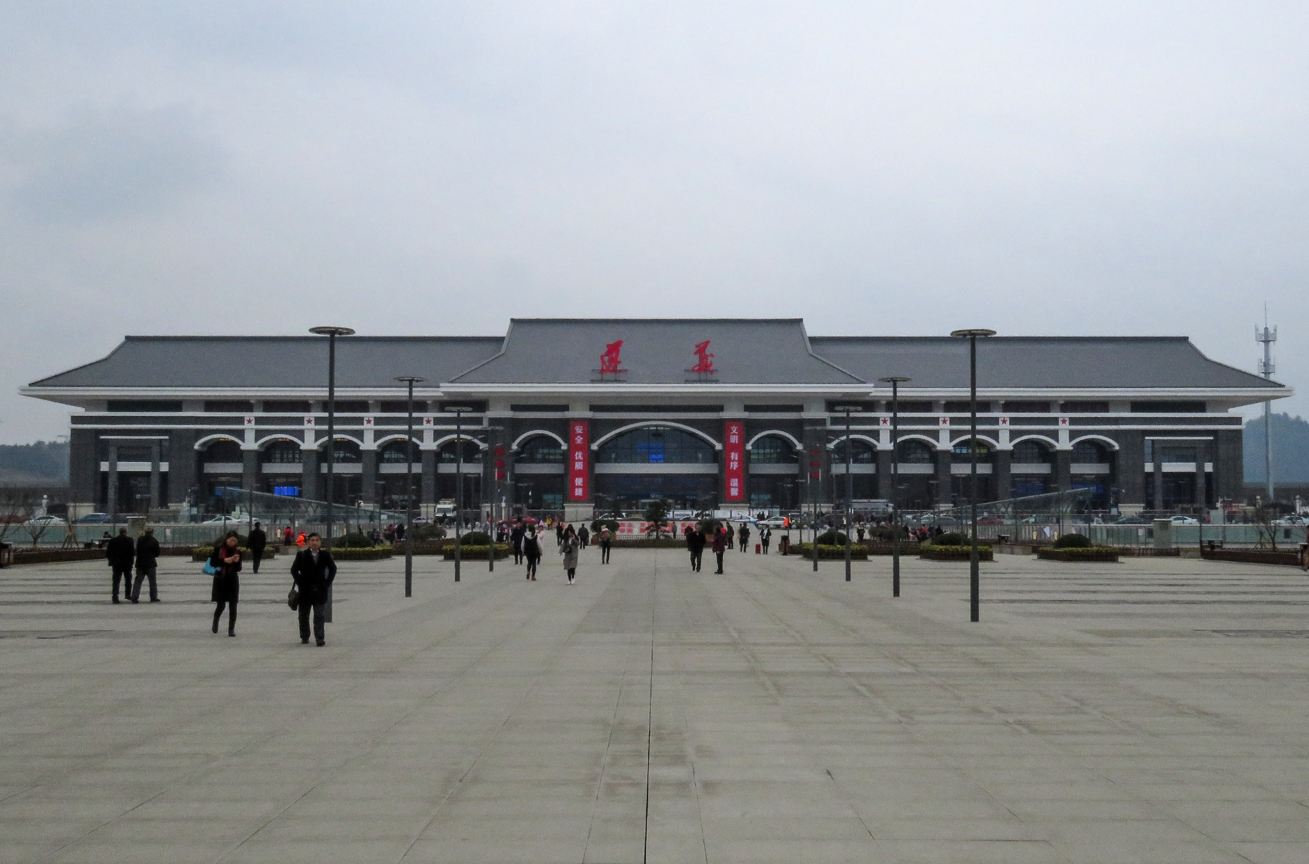 An enlarged version of Zunyi Conference Site...